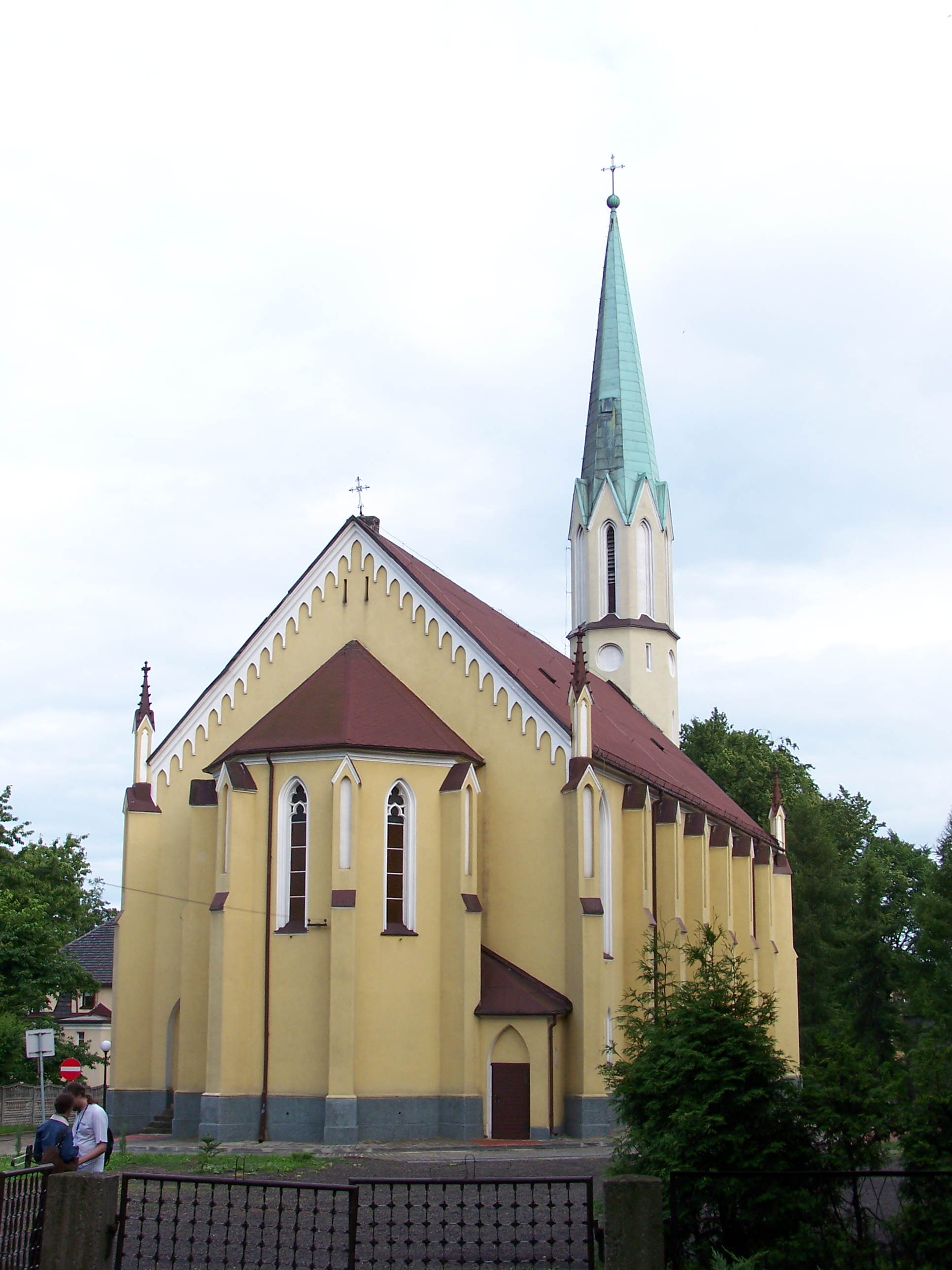 Ewangelic church in Mikołów